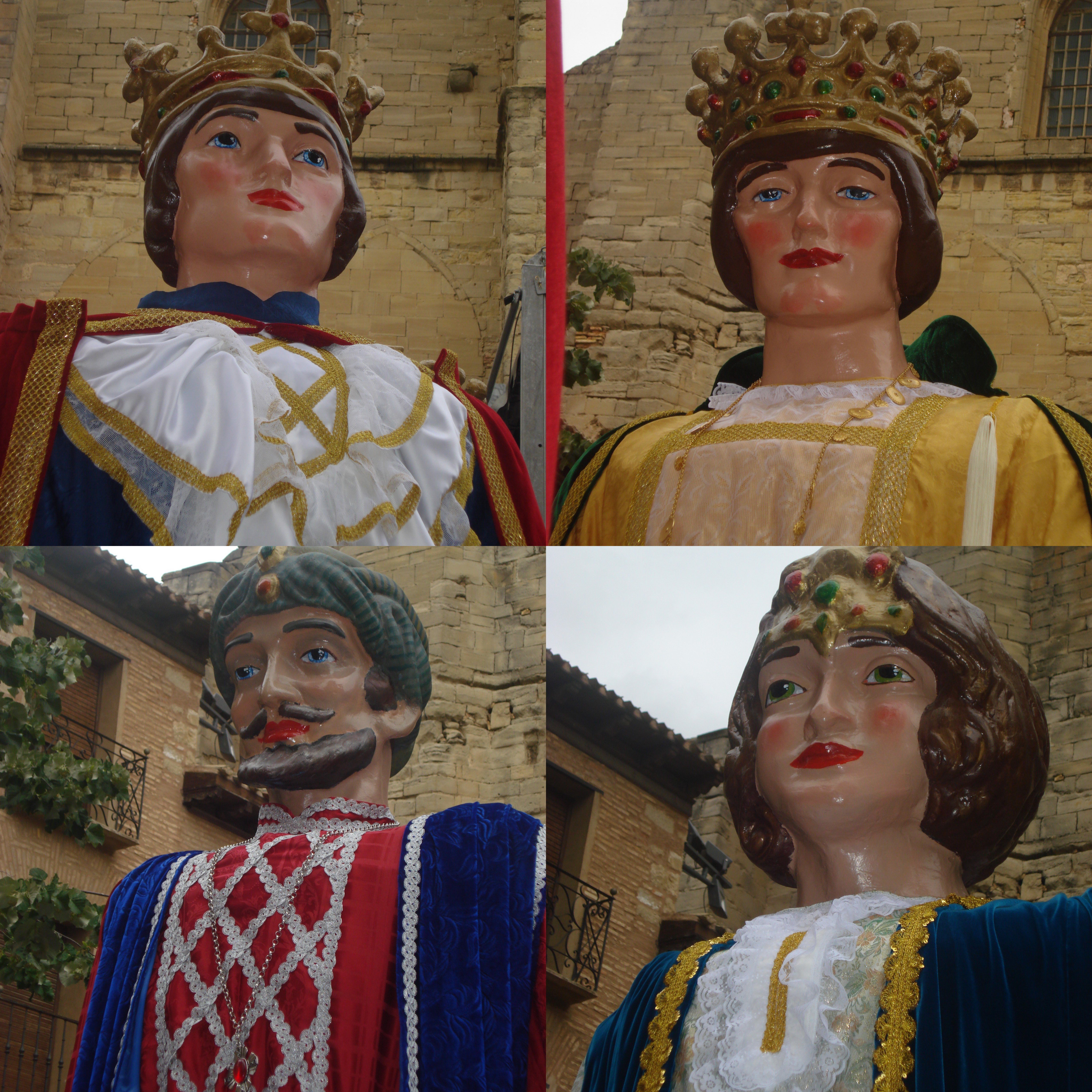 Viana's giants